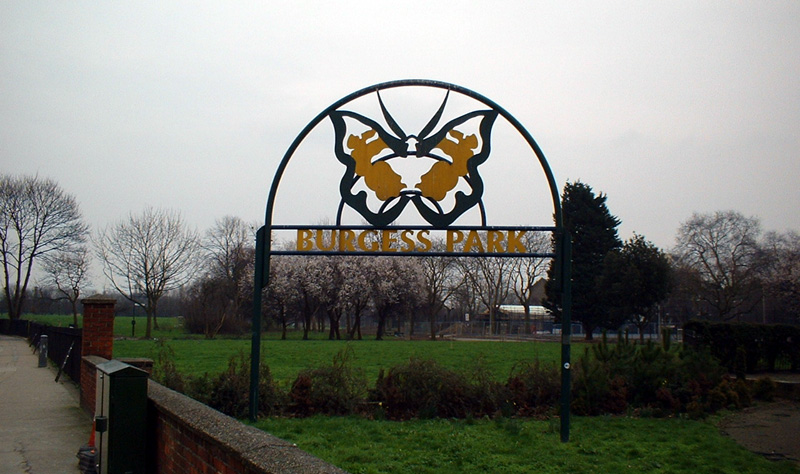 Burgess Park sign, Walworth, London. Taken by C Ford, February 2004.